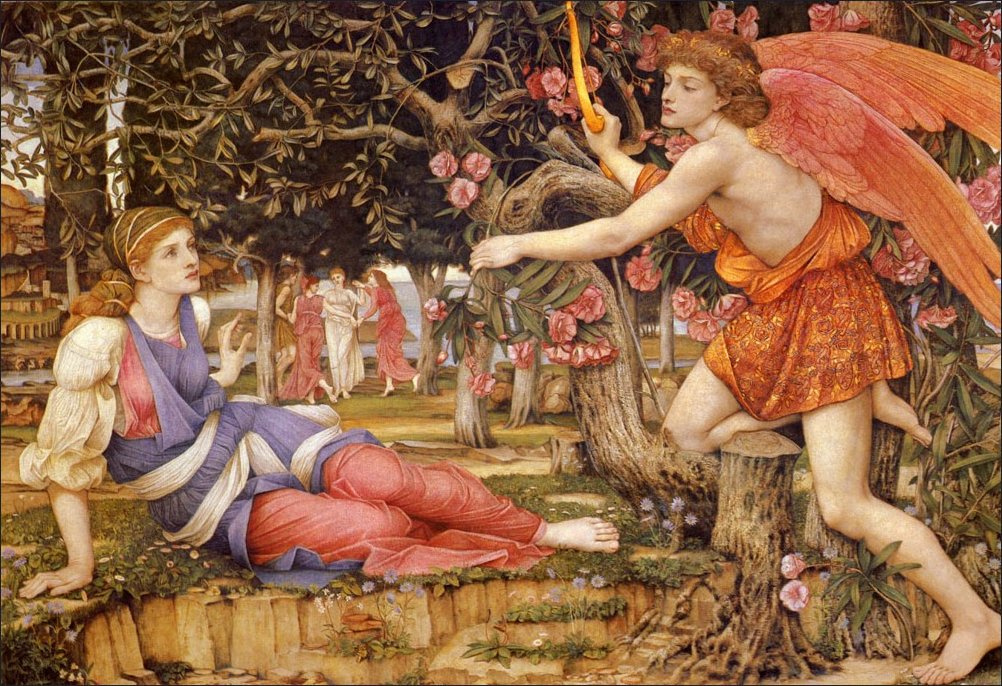 Love and the Maiden (1877) by John Roddam Spencer Stanhope. Tempera, gold paint and gold leaf on canvas. Signed (on tree trunk) with initials and dated: "RSS 1877"; also inscribed on stretcher: "Love & the Maiden / by / RS Stanhope / 4 Harley Place / S. W." Fine Arts Museums, San Francisco.